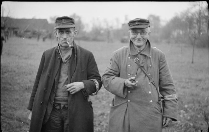 The British Army in North-west Europe 1944-45 Two old members of the Volksturm seem relieved to have surrendered to British troops in Bocholt, 28 March 1945.